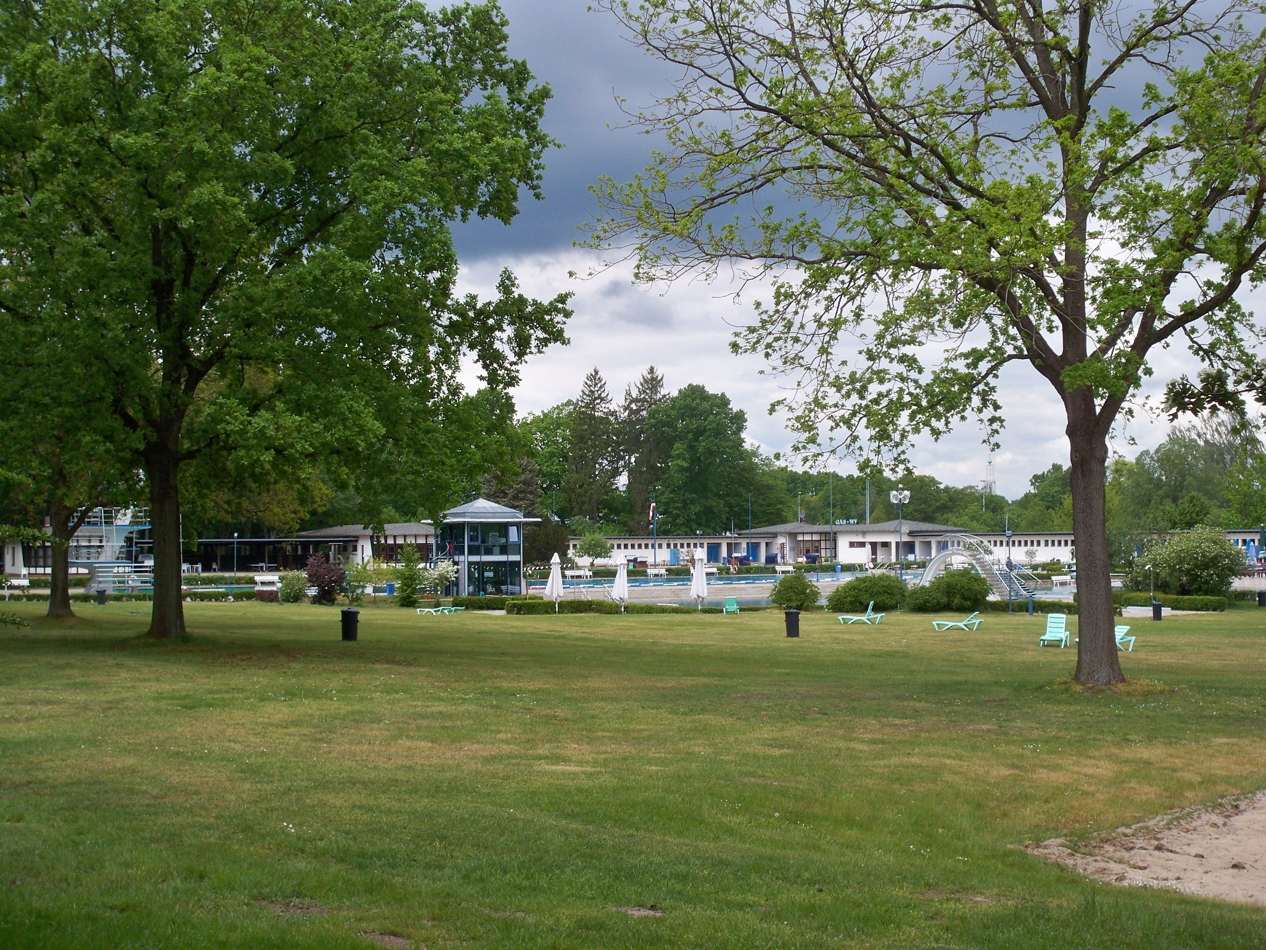 Wolfsburg, Lower Saxony, public bath "VW-Bad", view from outside